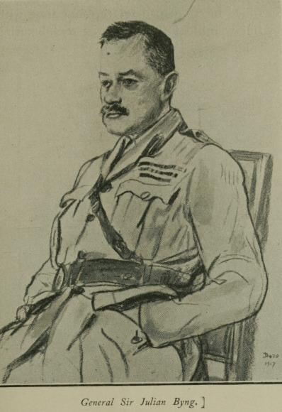 Sketch of General Sir Julian Byng by Francis Dodd